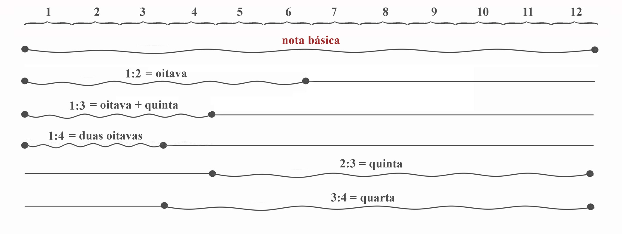 interval ratios between notes